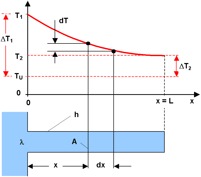 Temperature profile on a slab or on a cooling fin. λ =thermal conductivity, A= fin cross section, h= heat transfer coefficient, L= fin length, TU= ambient temperature